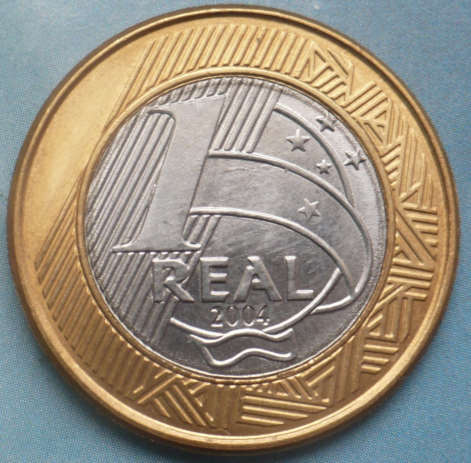 Brasil coin 1 real